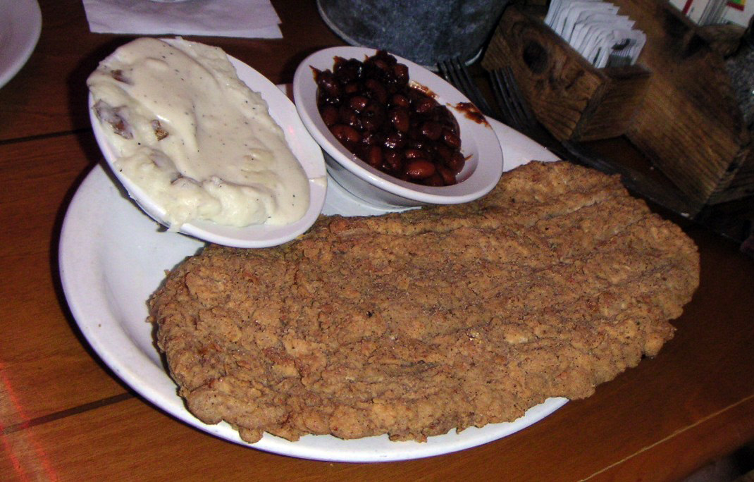 Taken in October of 2005; I release it under the license below.